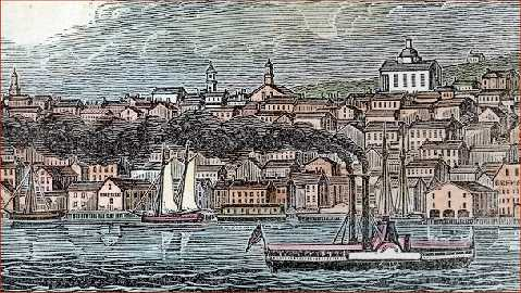 Found at the website of the Dutch Reformed Church Restoration Committee. [1]. Author unknown at this point but good presumption that he did indeed die before 1906.I scanned this image from an original 1846 print purchased from an antique store in Lake George in 2003 or thereabouts. This is the only extant image showing the DRC with the cupola on the roof before it was removed, presumably due to problems of some kind (perhaps leakage). - comment added by Jim Hoekema (designer of the DRC website).